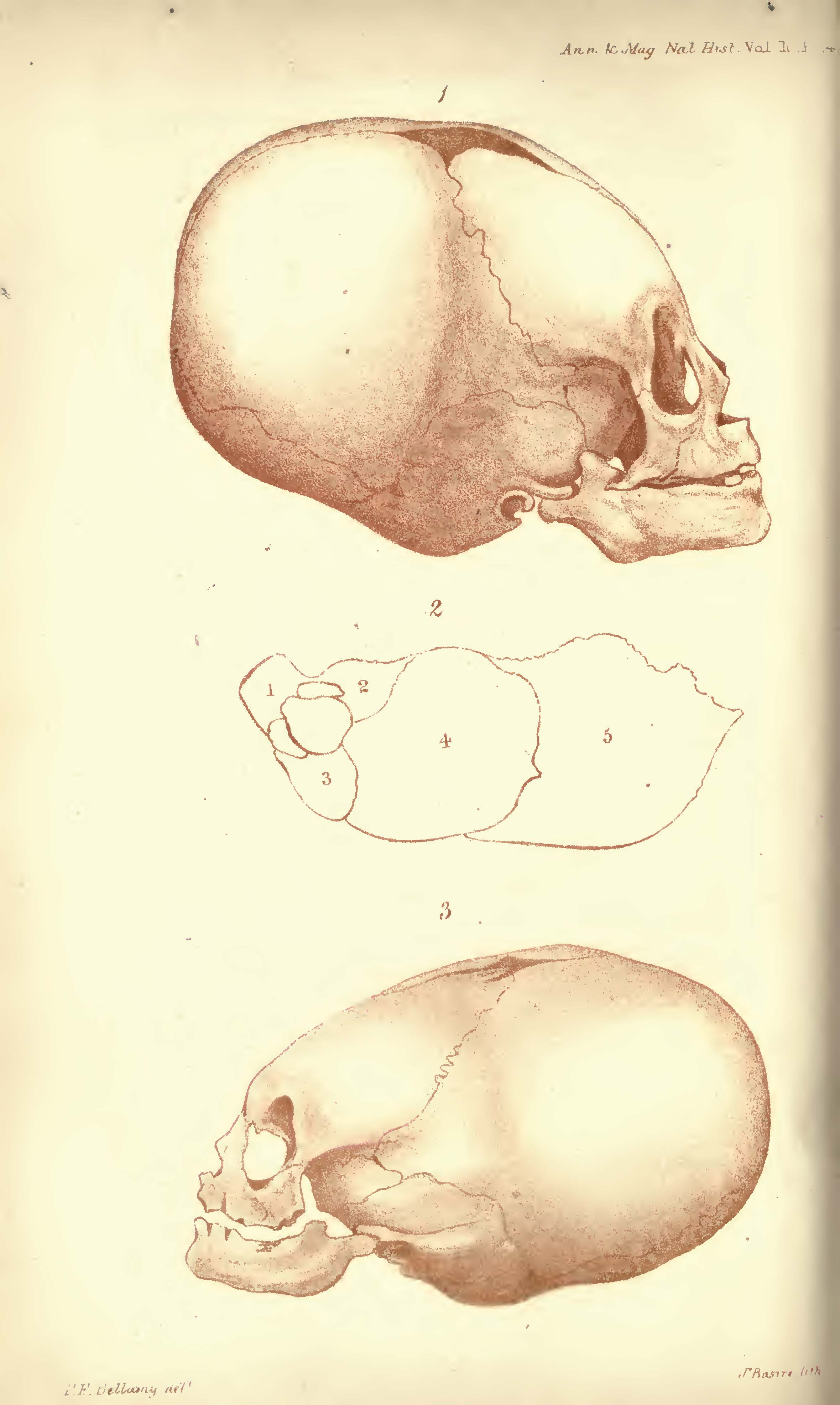 lithographs of the skulls by J. Basire from Bellamy, P. F. A brief Account of two Peruvian Mummies in the Museum of the Devon and Cornwall Natural History Society. in ‘Annals and Magazine of Natural History’. Vol. X, October 1842.